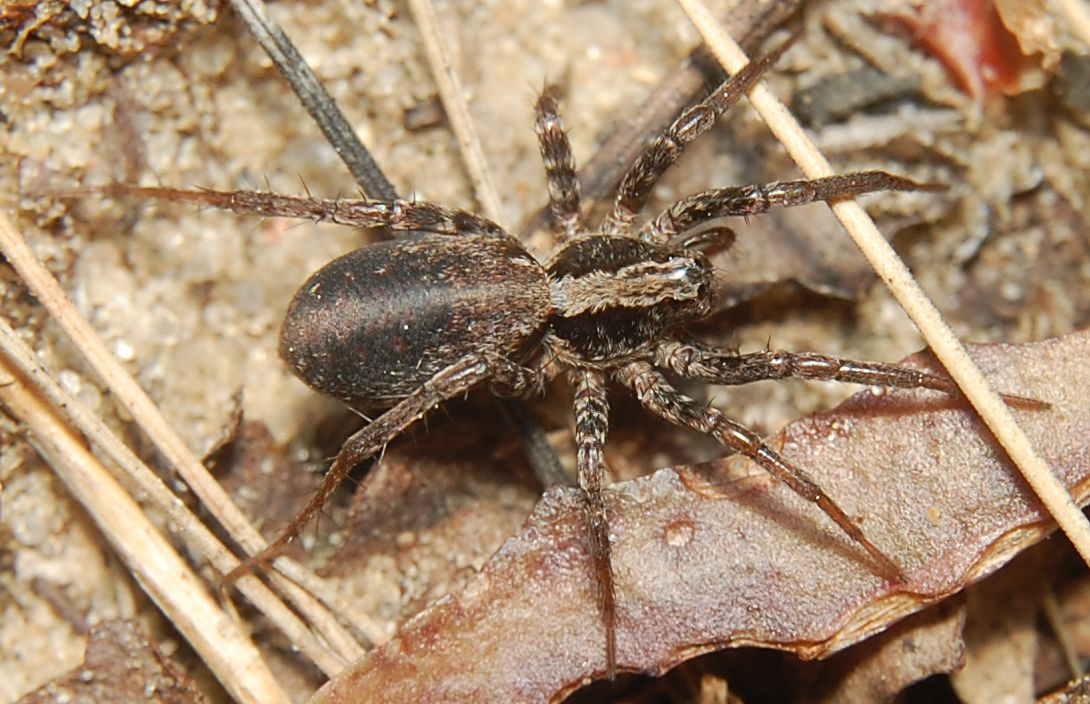 Xerolycosa miniata, female; det. (genital): K.-H. Kielhorn, Berlin